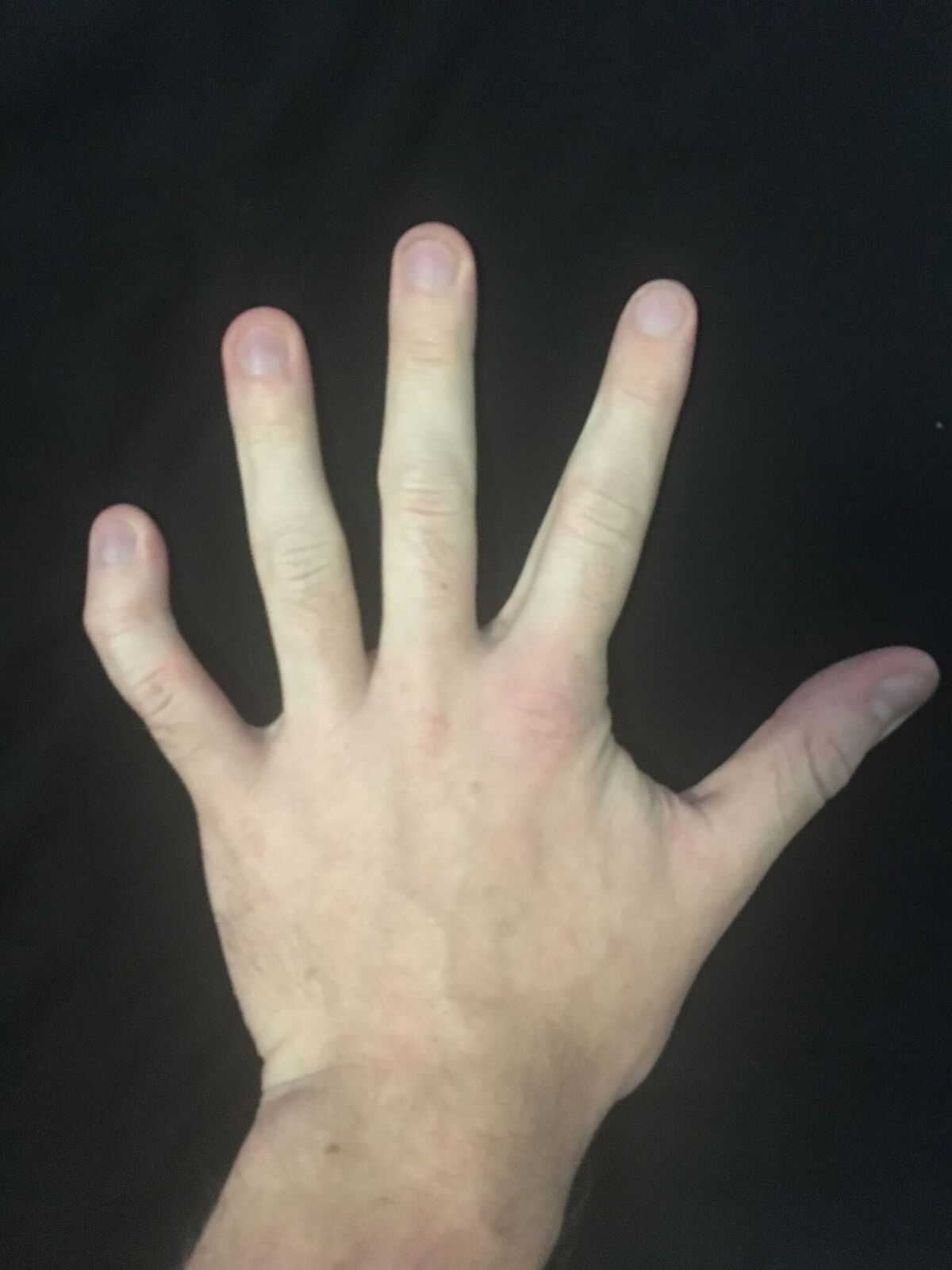 Hand of a person with severe clinodactyly.